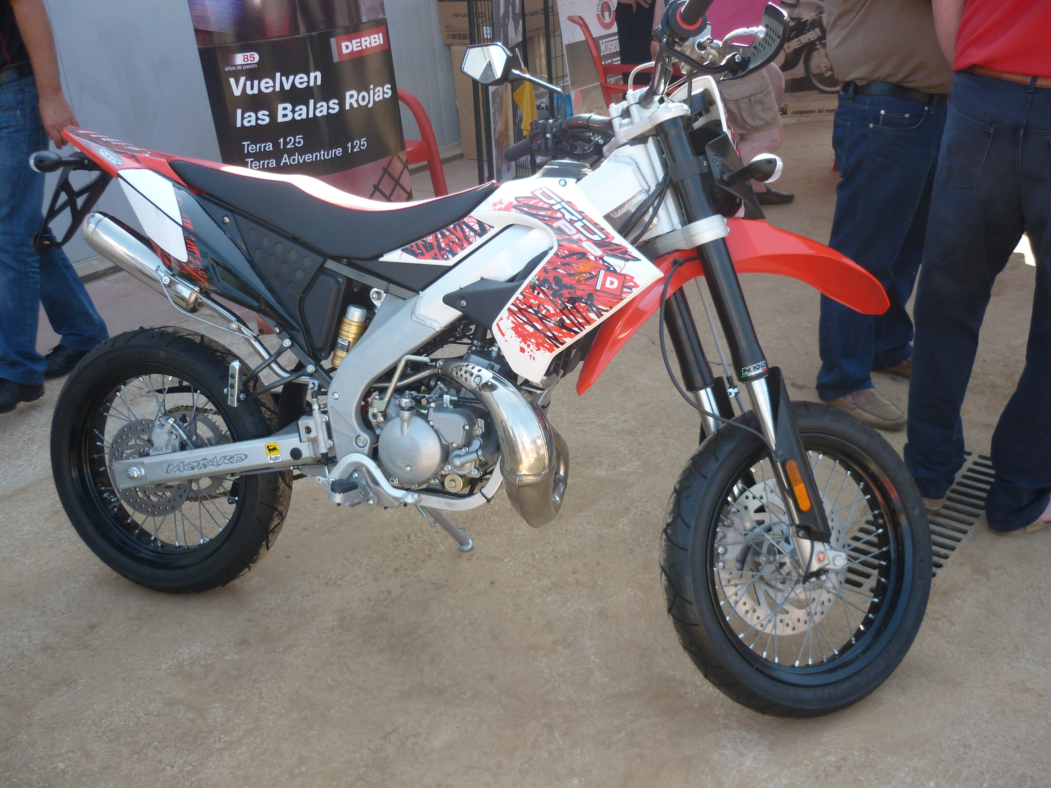 Derbi Senda DRD Pro 50 RSM (2010).Motorcycle meeting held on September 10, 2011 in Can Carrancà (near the Derbi factory in Martorelles, Catalonia).